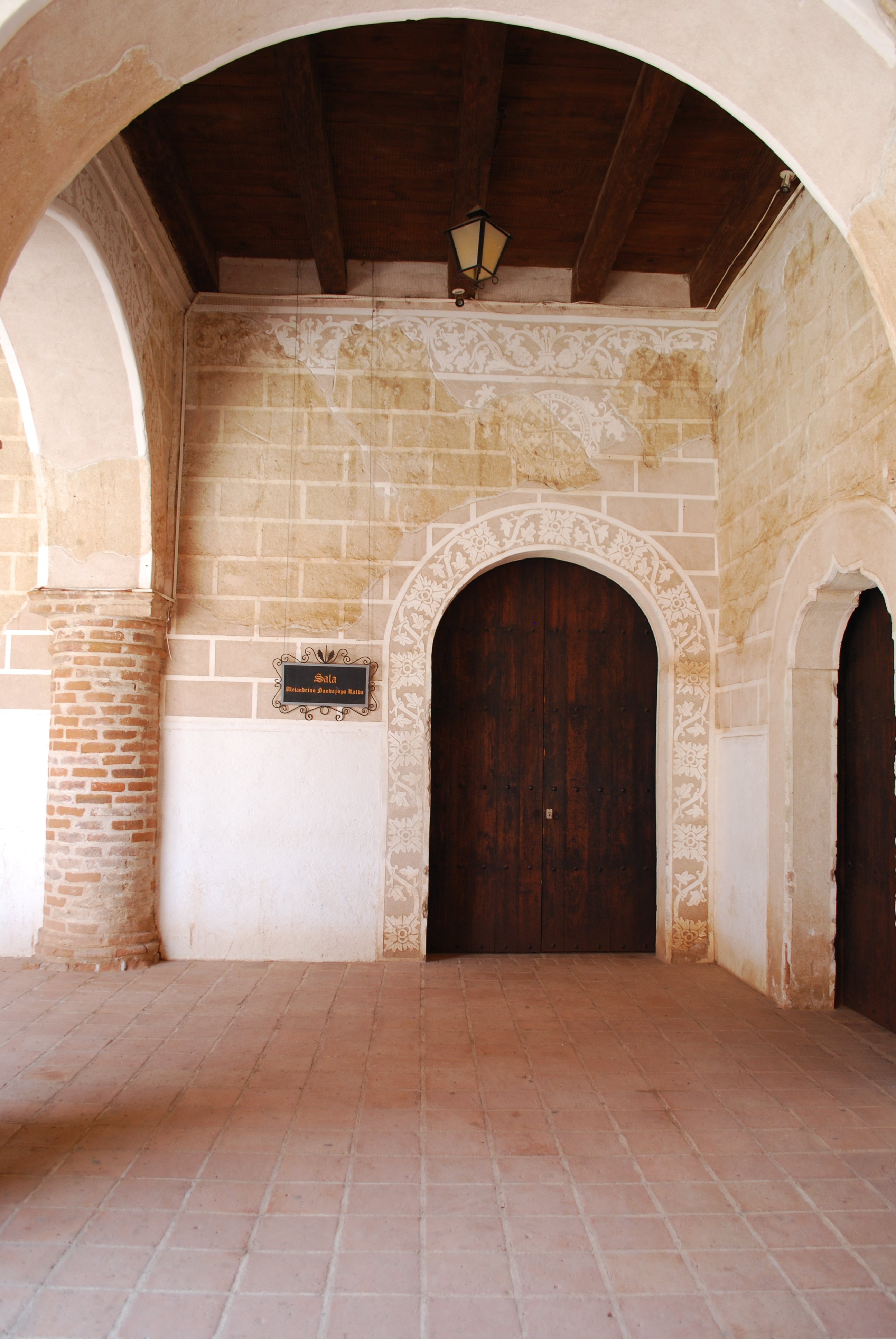 part of hallway and doors of the cloister of the former Santo Domingo monastery in Chiapa de Corzo, Chiapas, Mexico